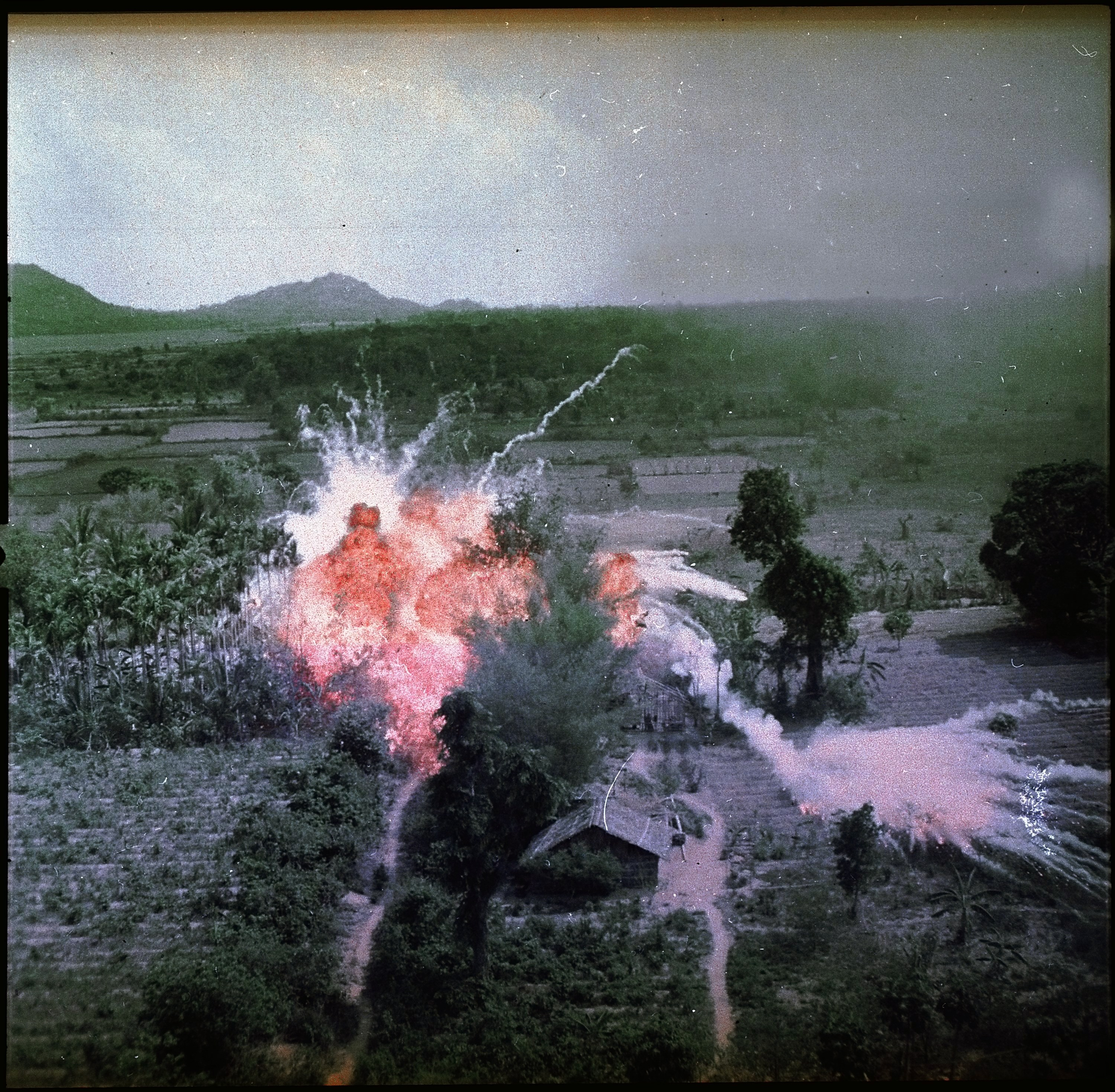 Napalm bombs explode on Viet Cong structures south of Saigon in the Republic of Vietnam